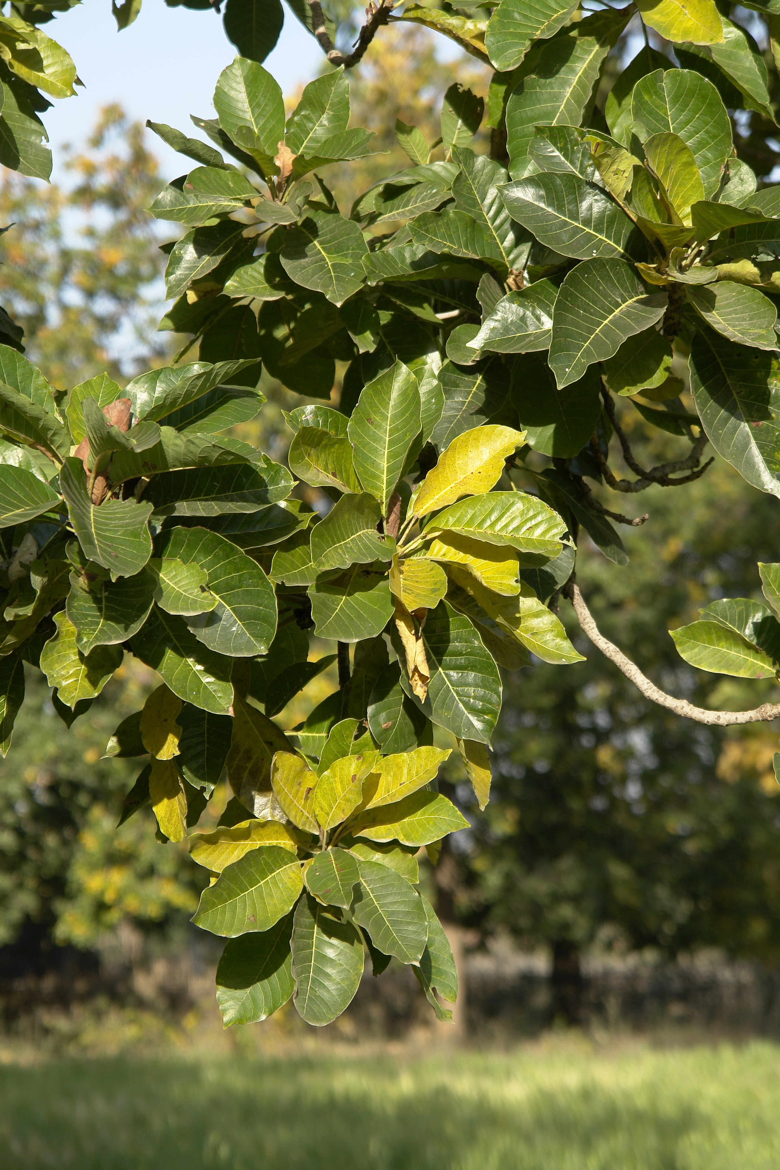 Leaves of mahwa (Madhuca longifolia), Umaria district, Madhya Pradesh, India.